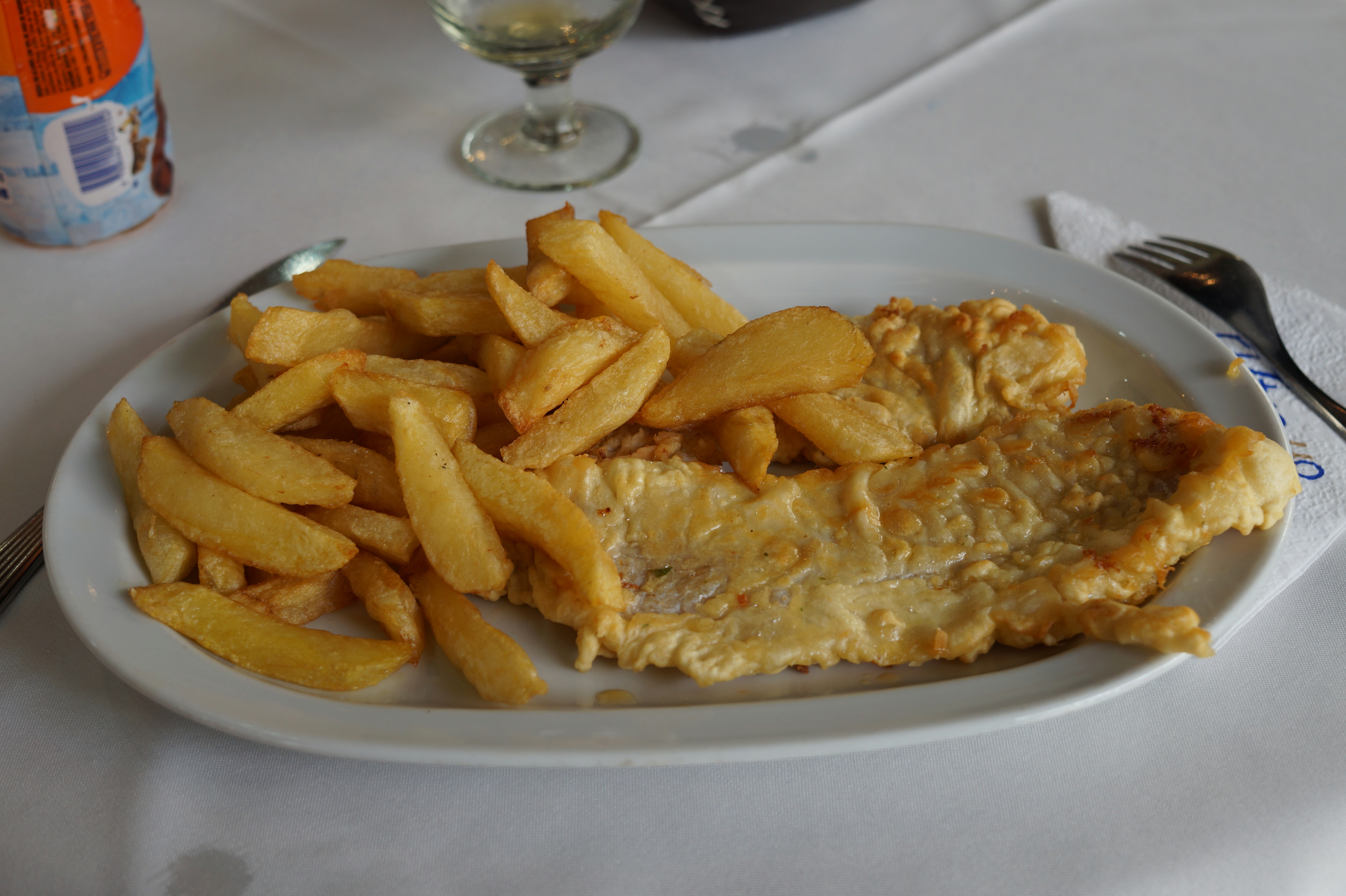 Filet of hake with french fries